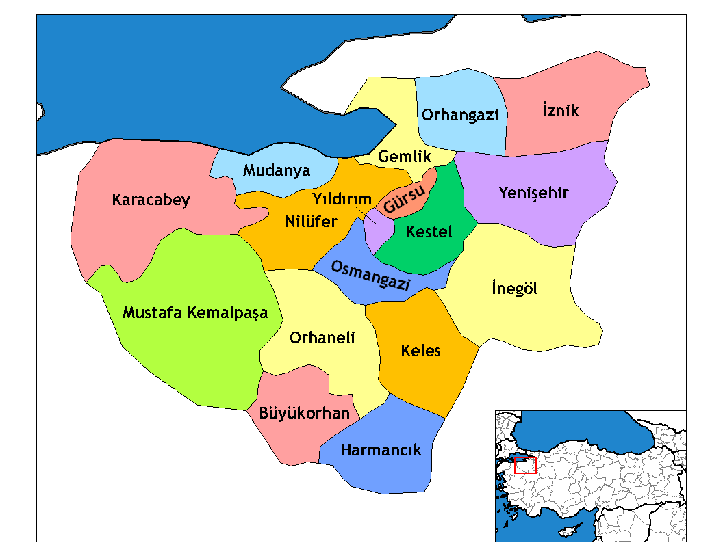 Map of the districts of Bursa province in Turkey. Created by Rarelibra 19:27, 1 December 2006 (UTC) for public domain use, using MapInfo Professional v8.5 and various mapping resources. Edited by One Homo Sapiens Corrected text where İ,Ş,ı,ğ,or ş occurs in name. Source: [statoids-com]. Increased font size and enhanced color differences among adjacent districts.